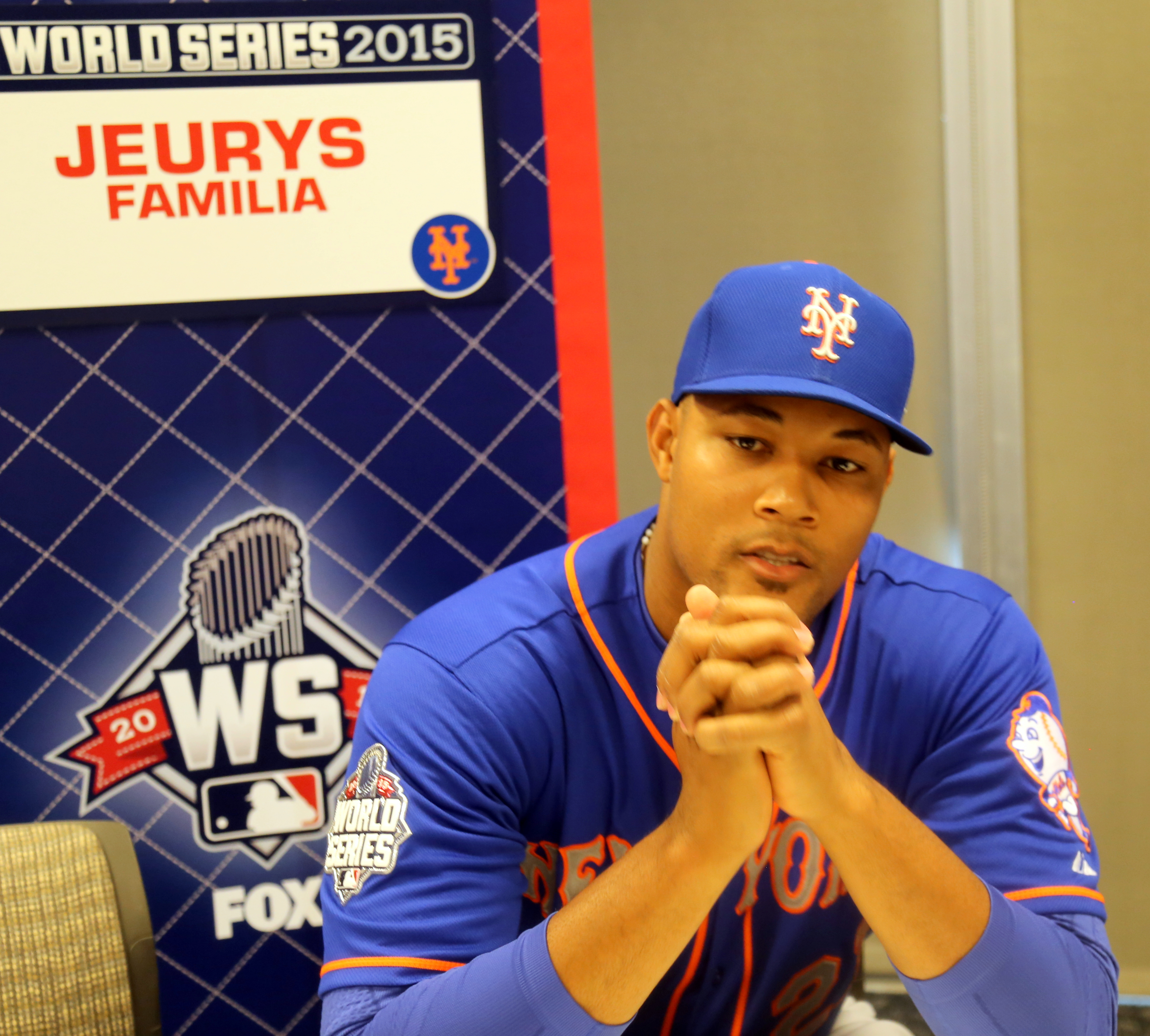 Jeurys Familia ponders a question on #WSMediaDay.